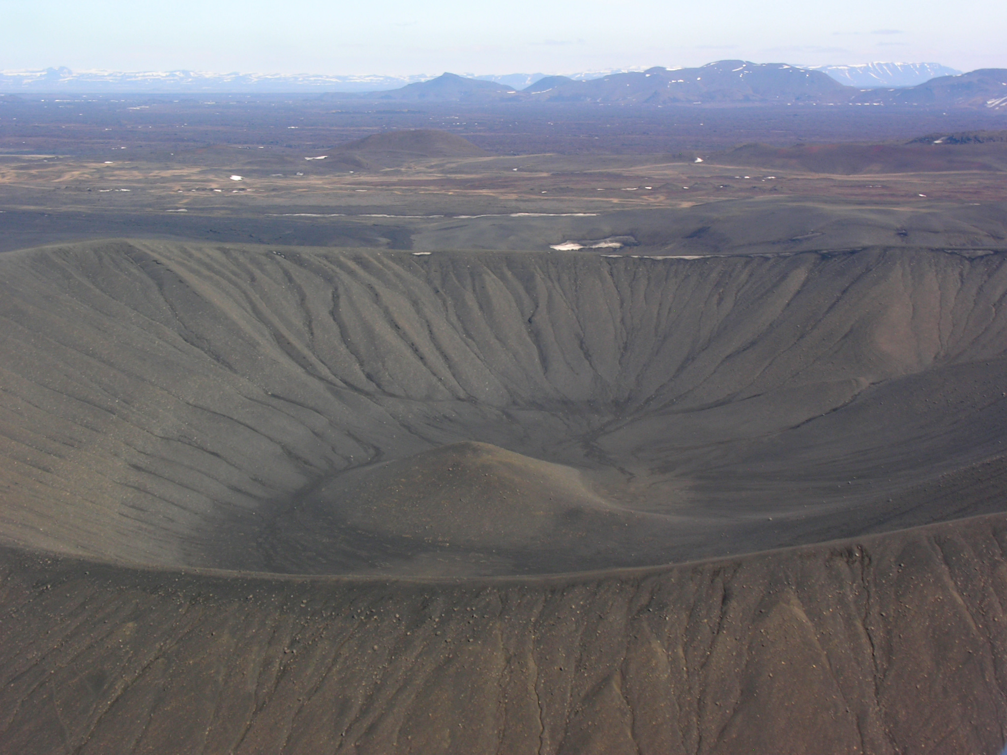 Aerial View of Hverfjall